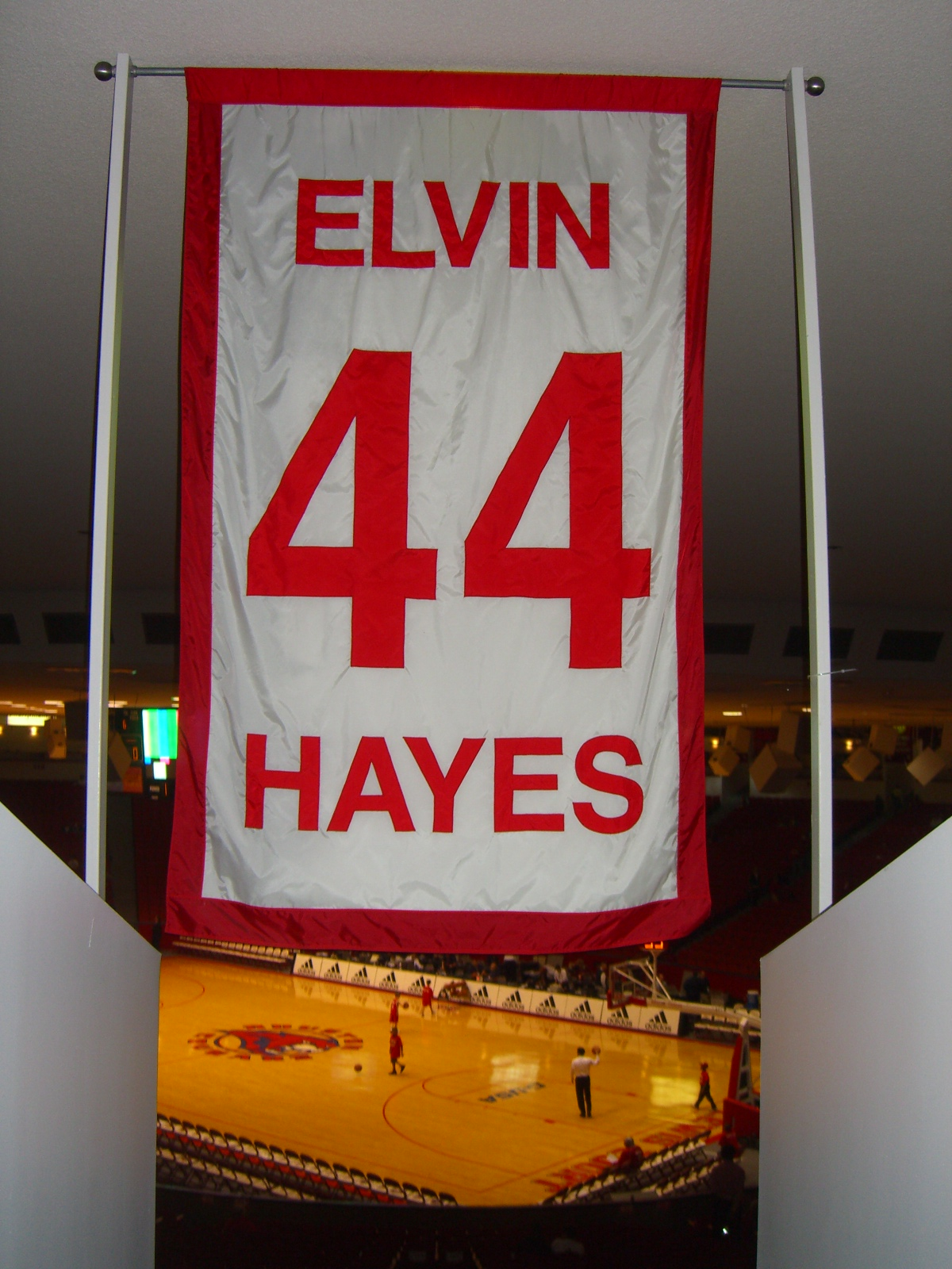 Elvin Hayes' retired number at the University of Houston in Hofheinz Pavilion.